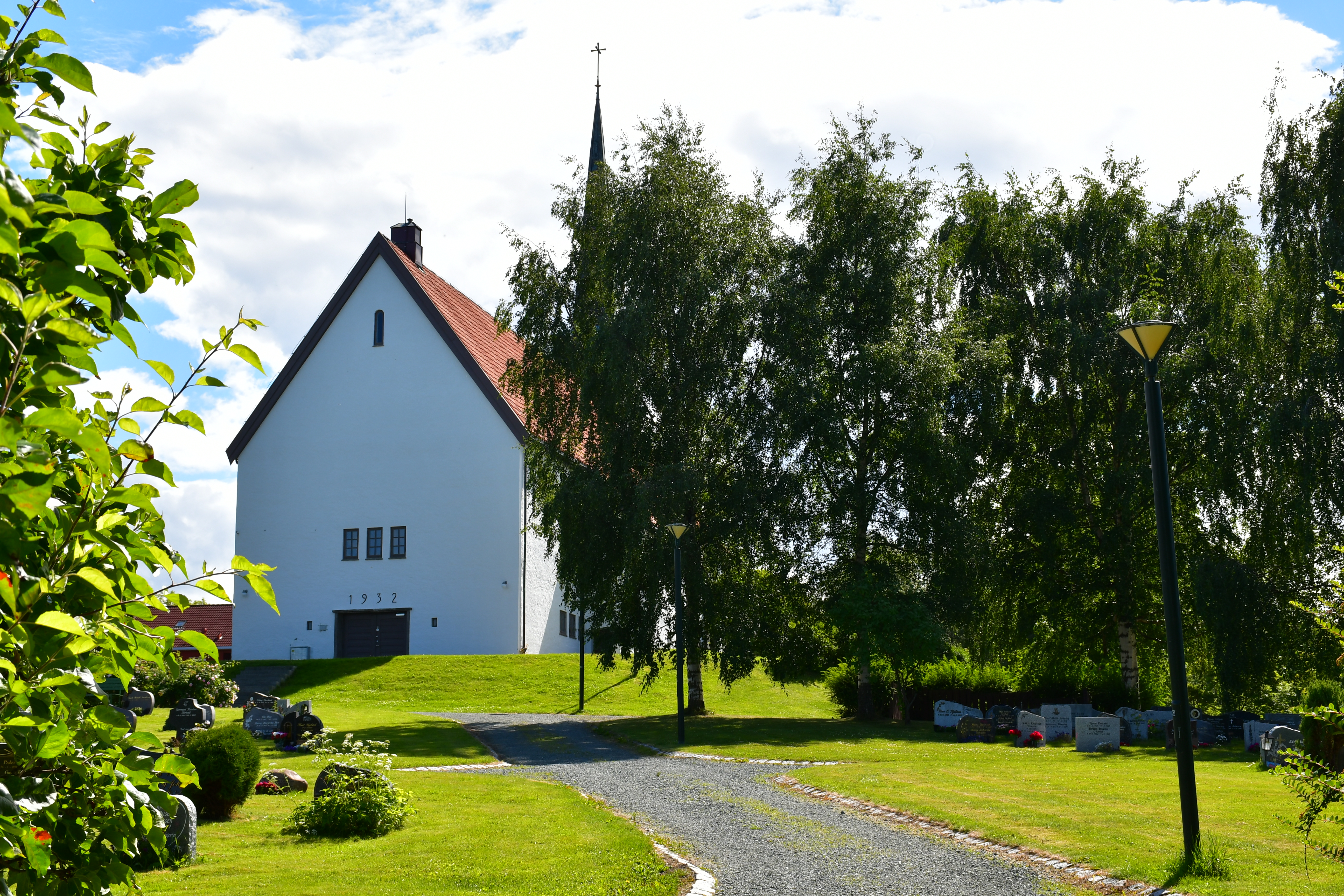 Ranheim church, seen from the seaside, July 16, 2020.